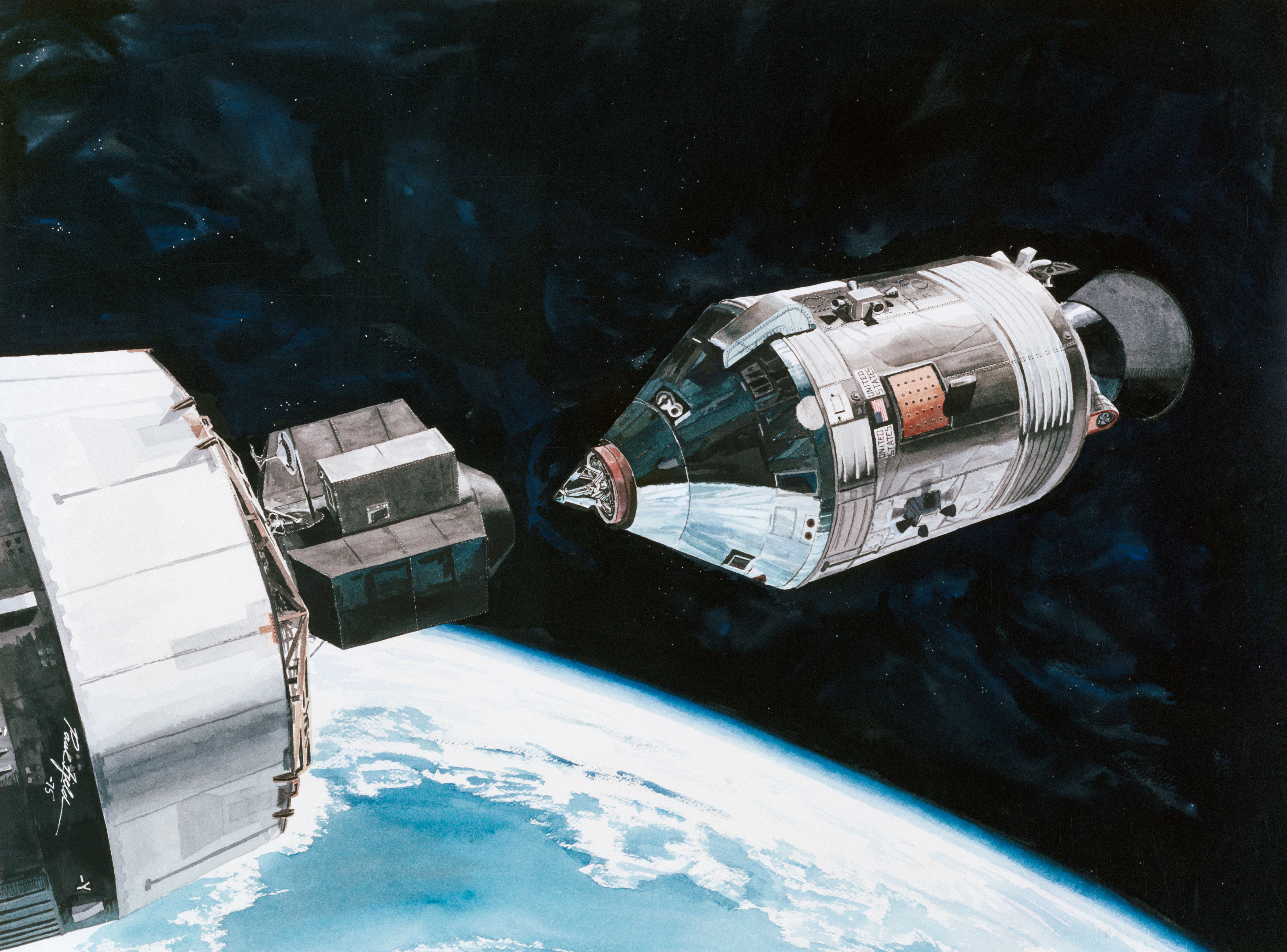 S75-28512 - An artist's concept depicting a scene in Earth orbit during the Apollo transposition and docking maneuvers of the Apollo-Soyuz Test Project mission. The Command/Service Module is moving into position to dock with the Docking Module. Following the docking the DM will be extracted from the expended Saturn IVB stage. The Docking Module is designed to link the American Apollo spacecraft with the Soviet Soyuz spacecraft. This scene will take place some one hour and twenty-three minutes after the Apollo-Saturn 1B liftoff from the Kennedy Space Center on July 15, 1975. The Soyuz launch at 7:20 a.m. (CDT) from the Baikonur, Kazakhstan launch pad will precede the Apollo liftoff by seven and one-half hours. The artwork is by Paul Fjeld.